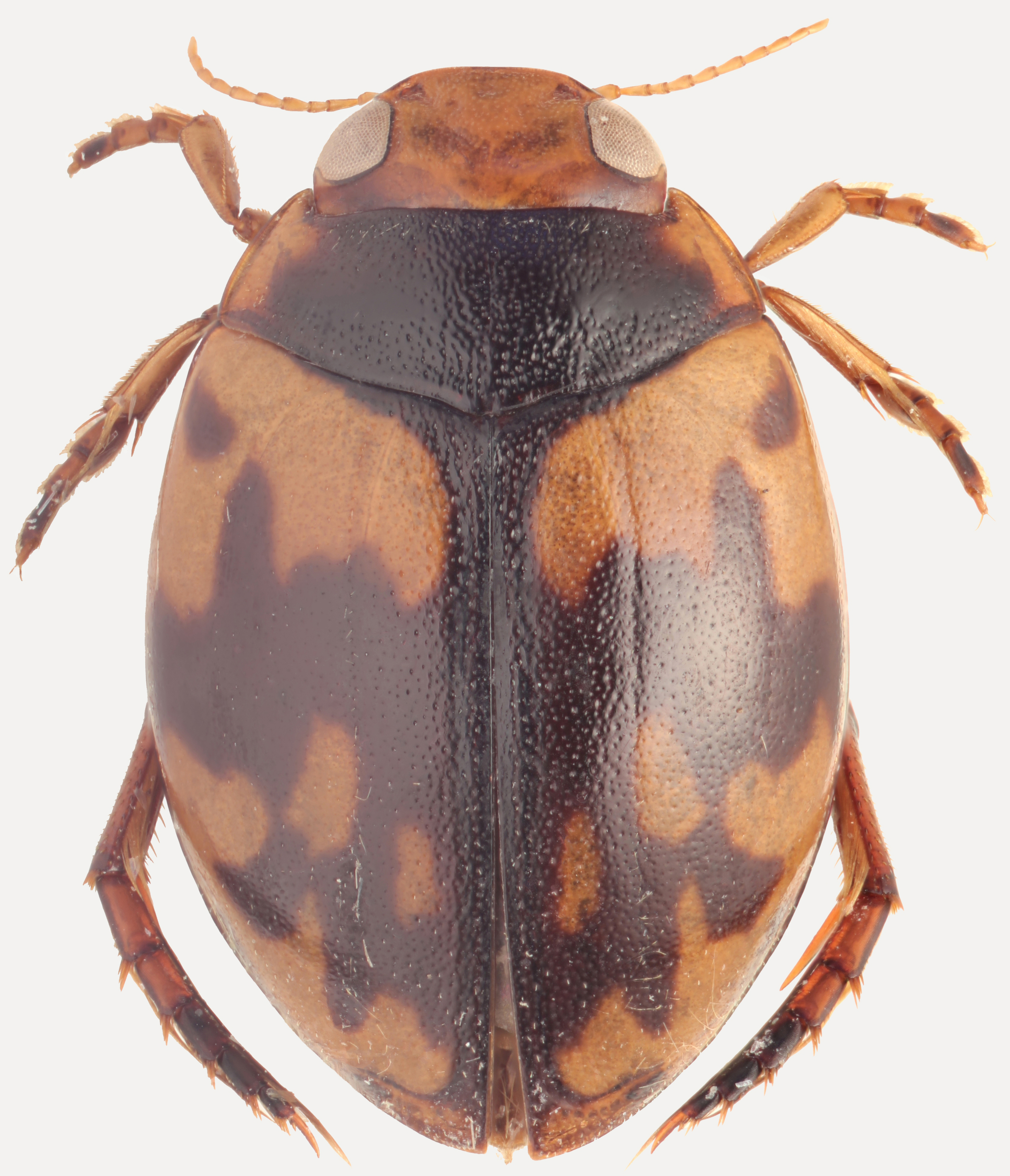 Dorsal habitus of Hyphydrus pictus from the United Arab Emirates